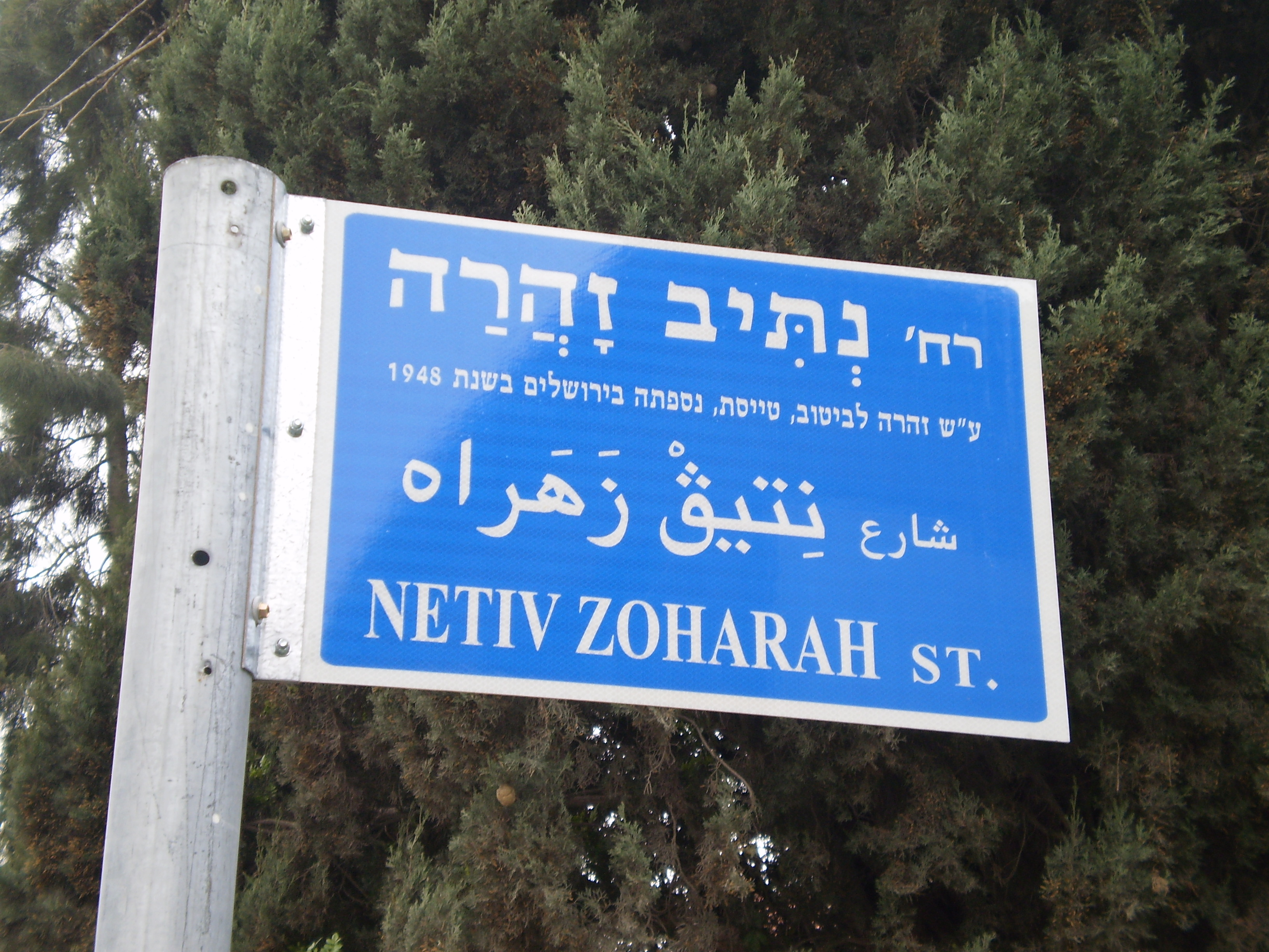 Ntiv_Zohara - Astreet in Jerusalem, named after Zohara Levitov